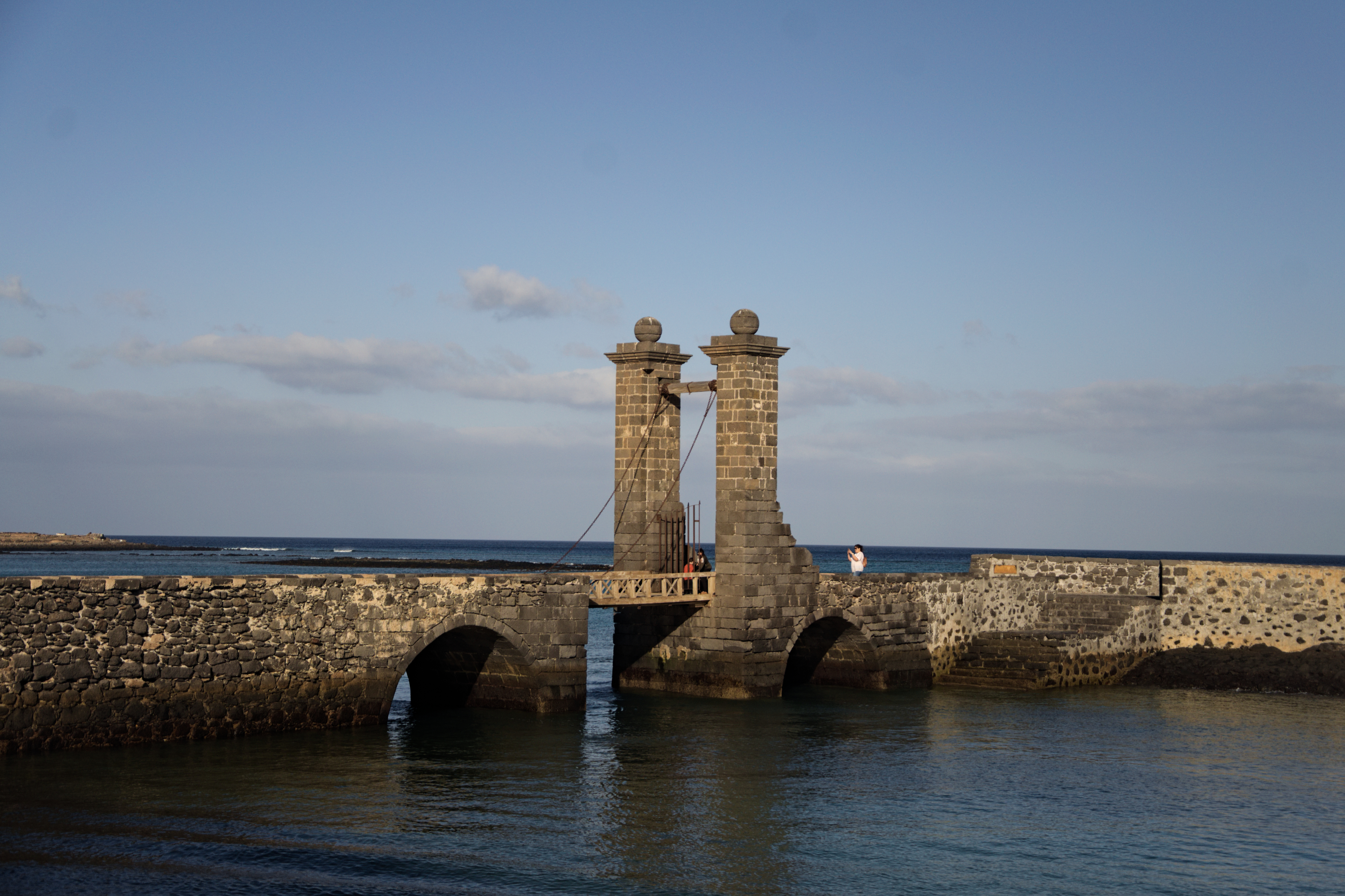 Bridge of the balls of the San Gabriel Castle.